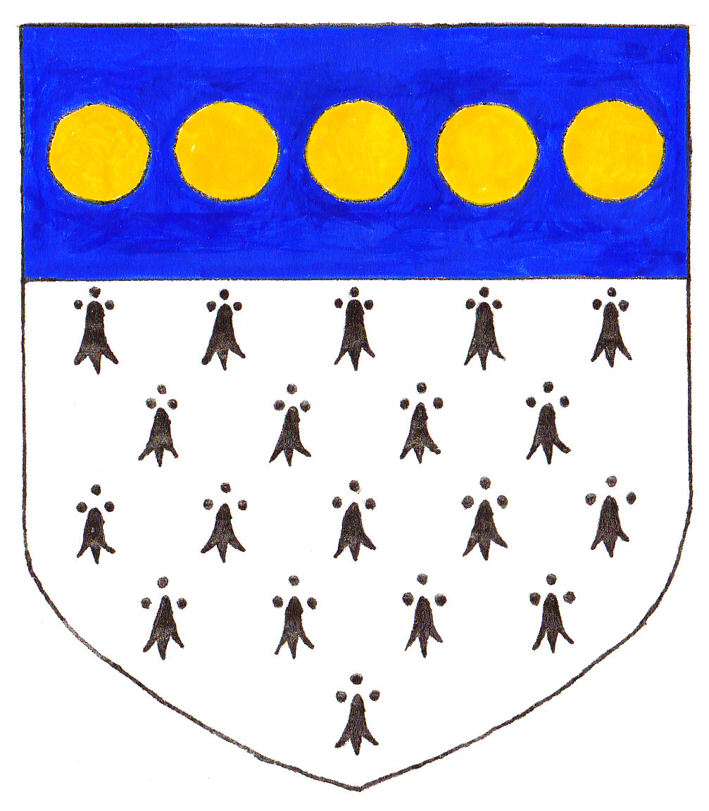 Armorials of Weston of Sutton Place, Surrey: Ermine, on a chief azure 5 bezants